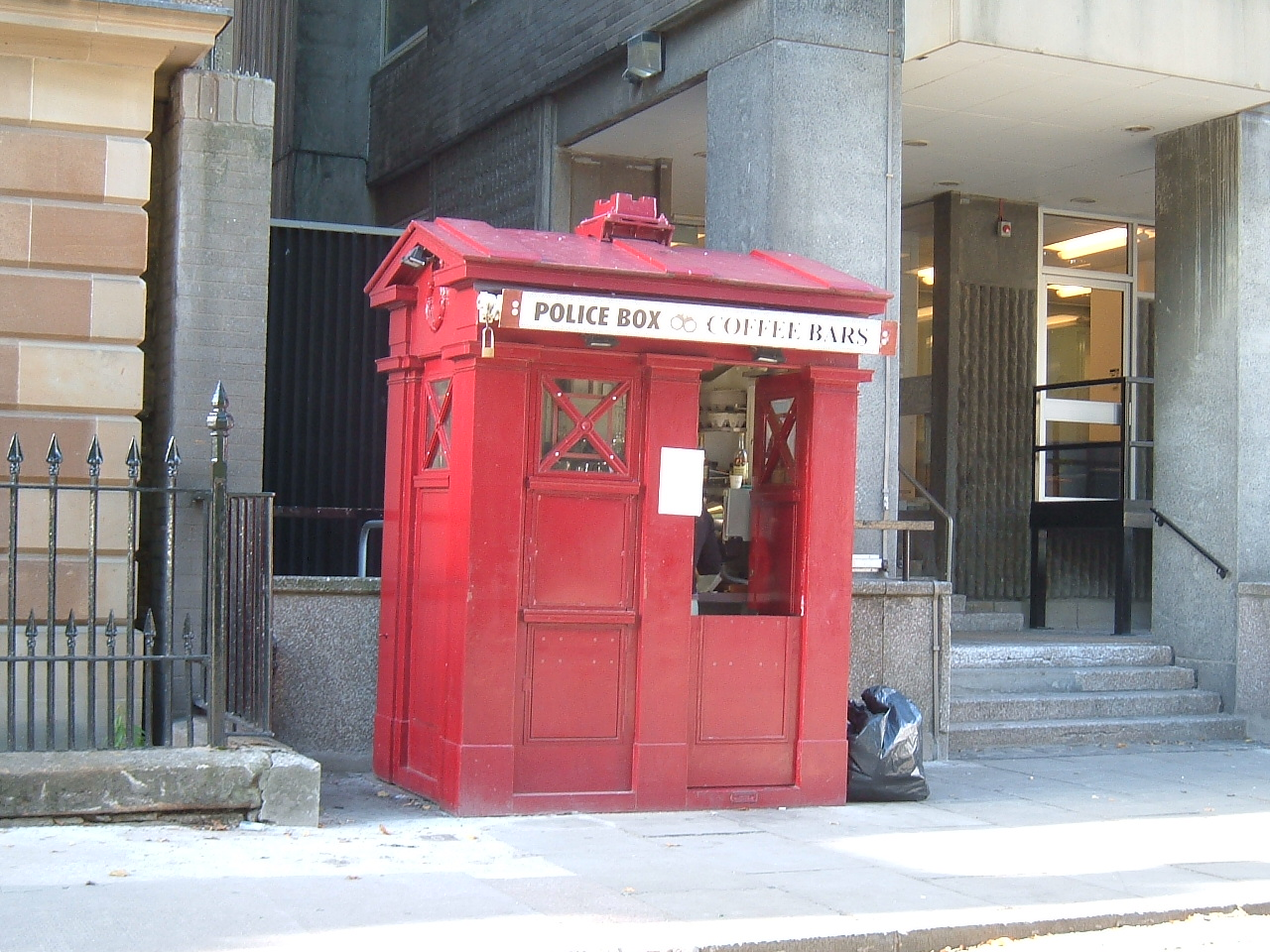 A police box that has been converted into a coffee bar. Taken by User:Pilatus